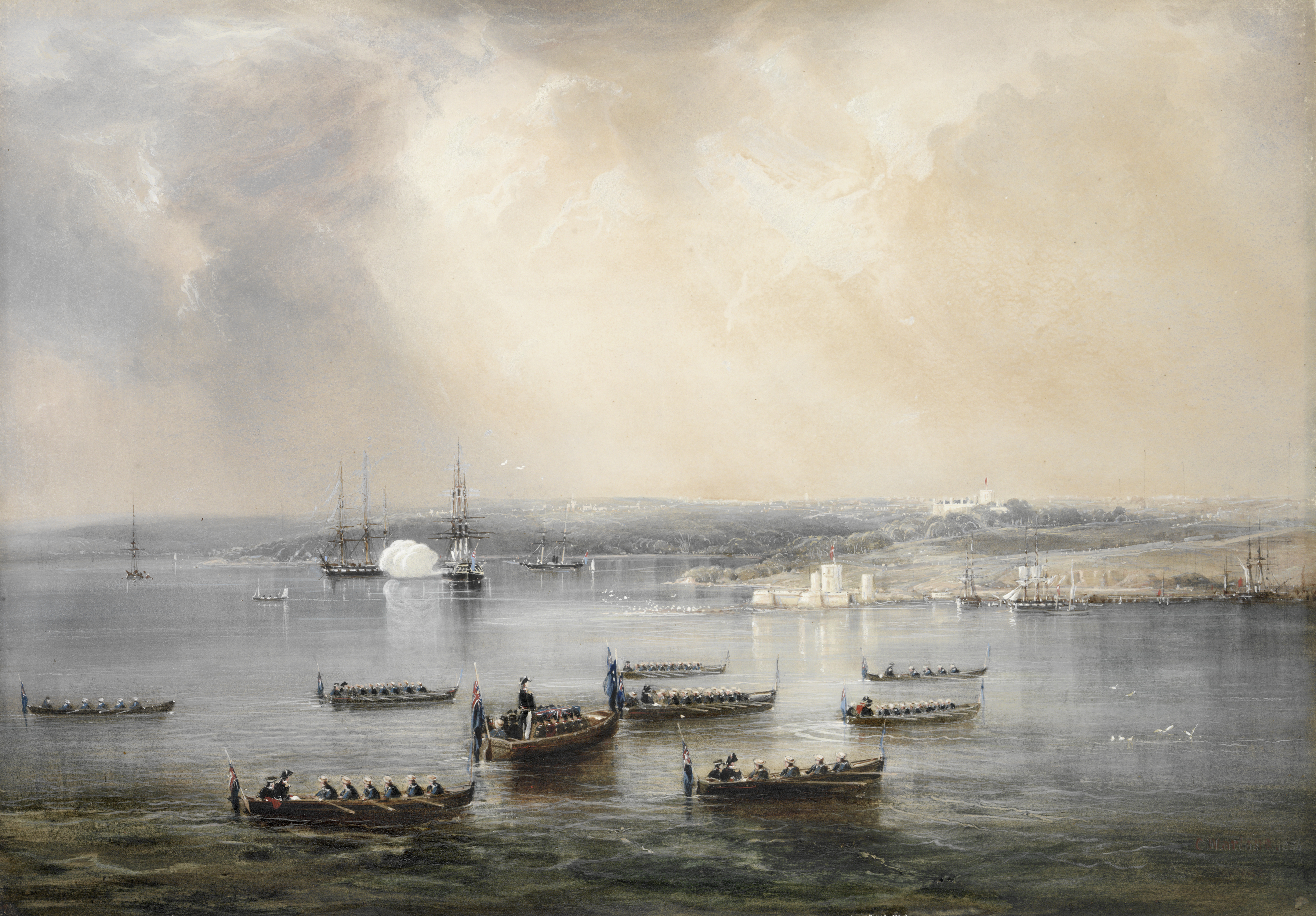 The Funeral of Rear Admiral Philip Parker King died 26th Feb 1856